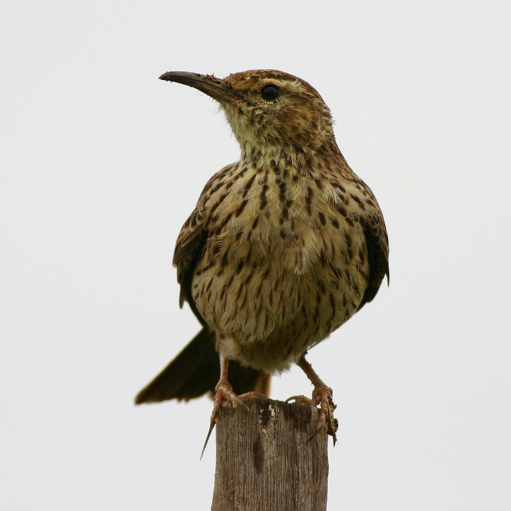 A perched Agulhas Long-billed Lark (Certhilauda brevirostris). Location: De Hoop Nature Reserve on the Overberg and quite close to Agulhas point.